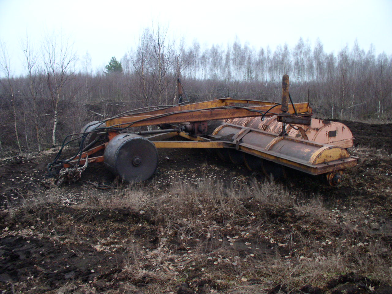 Machinery at peat mining near Rudzensk, Belarus.